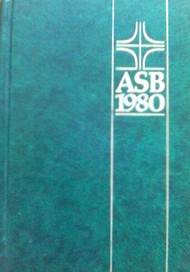 Photograph of the front cover of the Alternative Service Book of the Church of England.